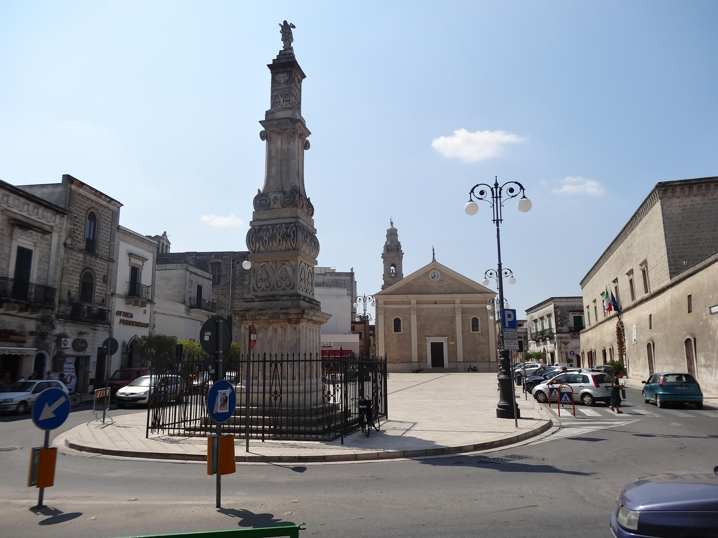 piazza di sava completa